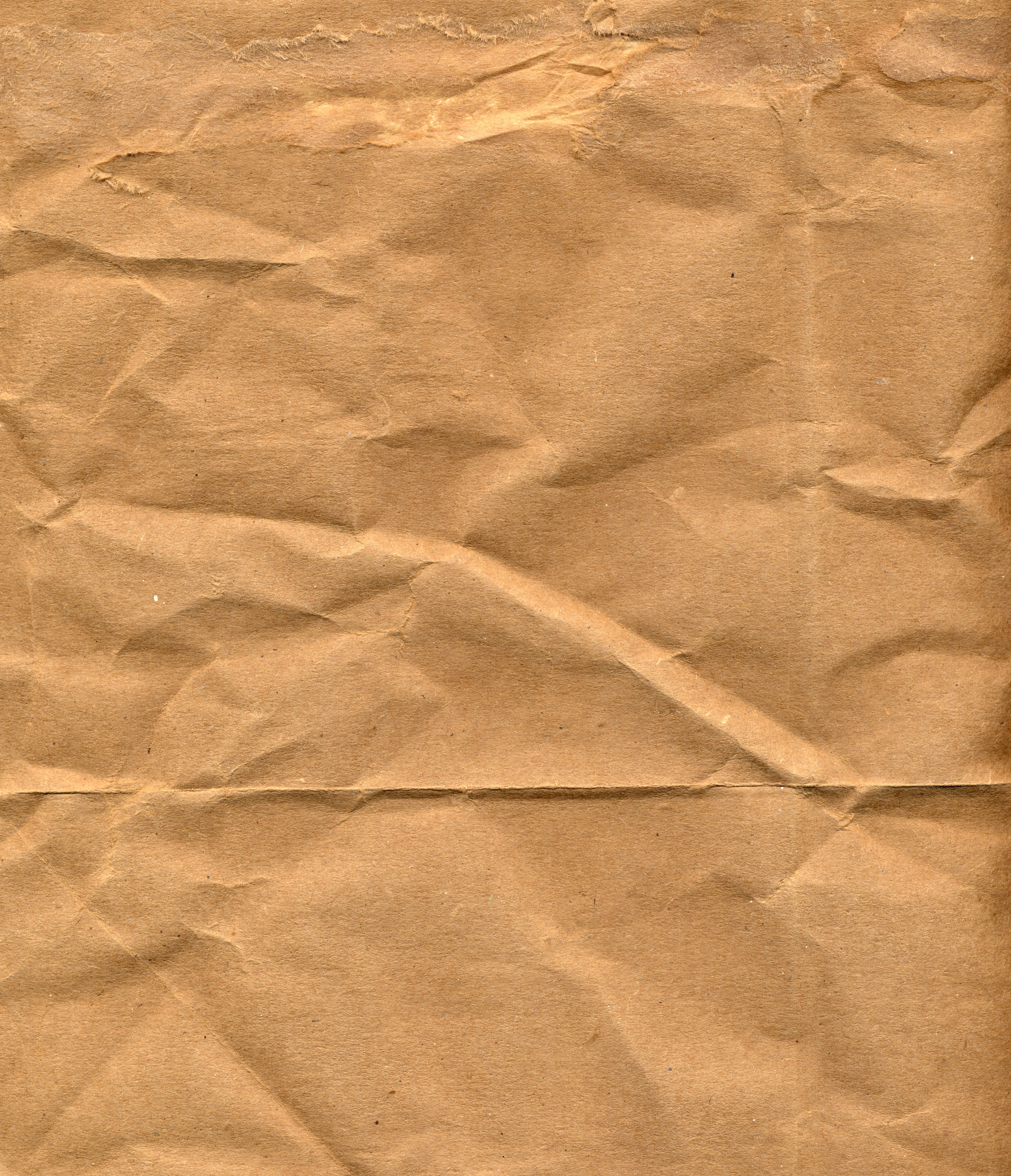 Close up picture of a brown paper bag